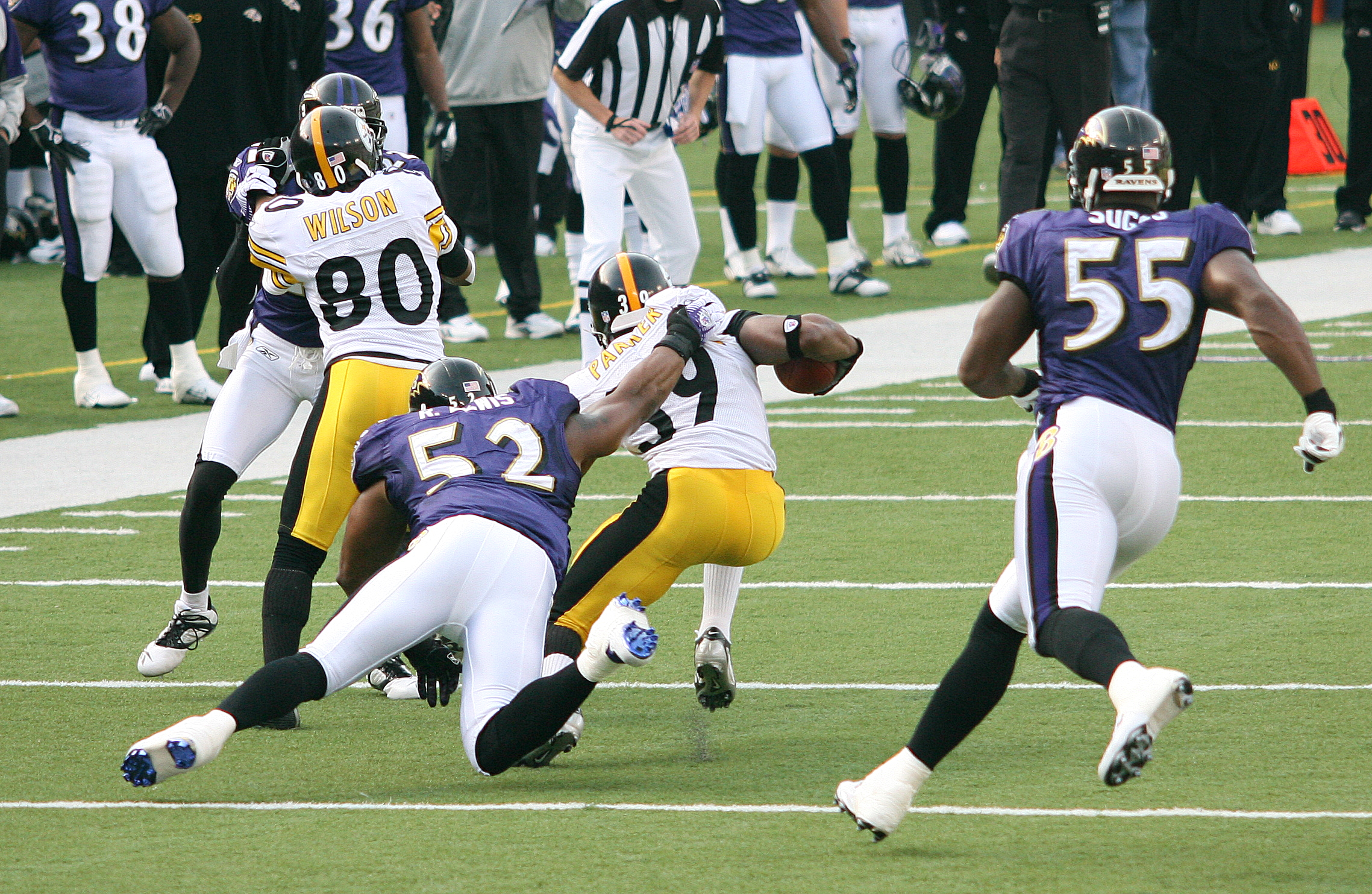 Willie Parker tries to break a Ray Lewis tackle while Cedric Wilson blocks. 2006-11-26